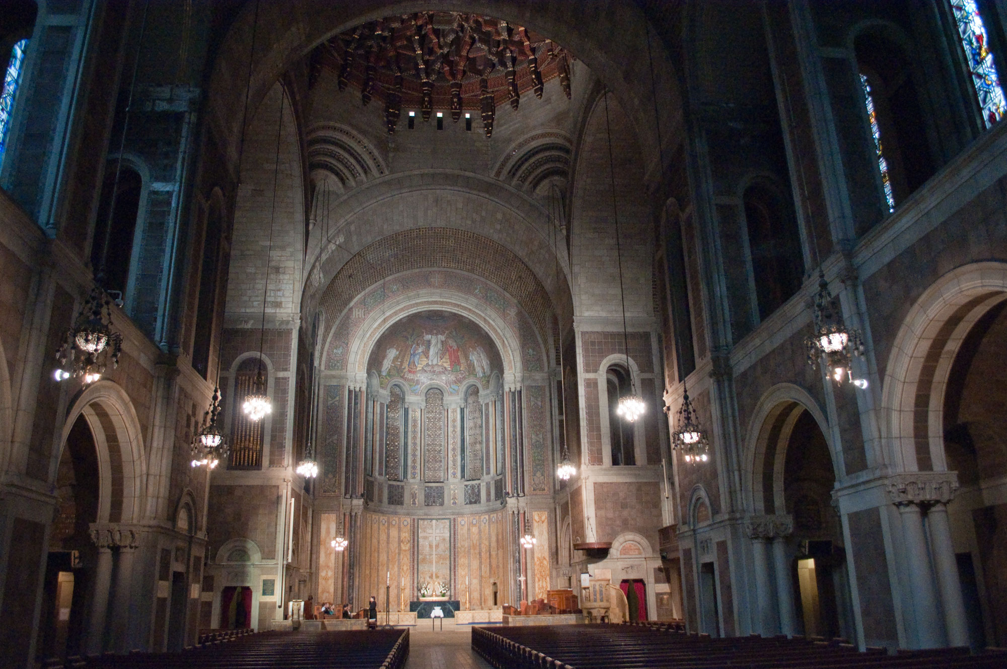 St. Bartholomew's Episcopal Church, New York